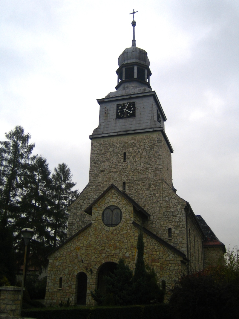 Church in Naklo, Silesia, PL